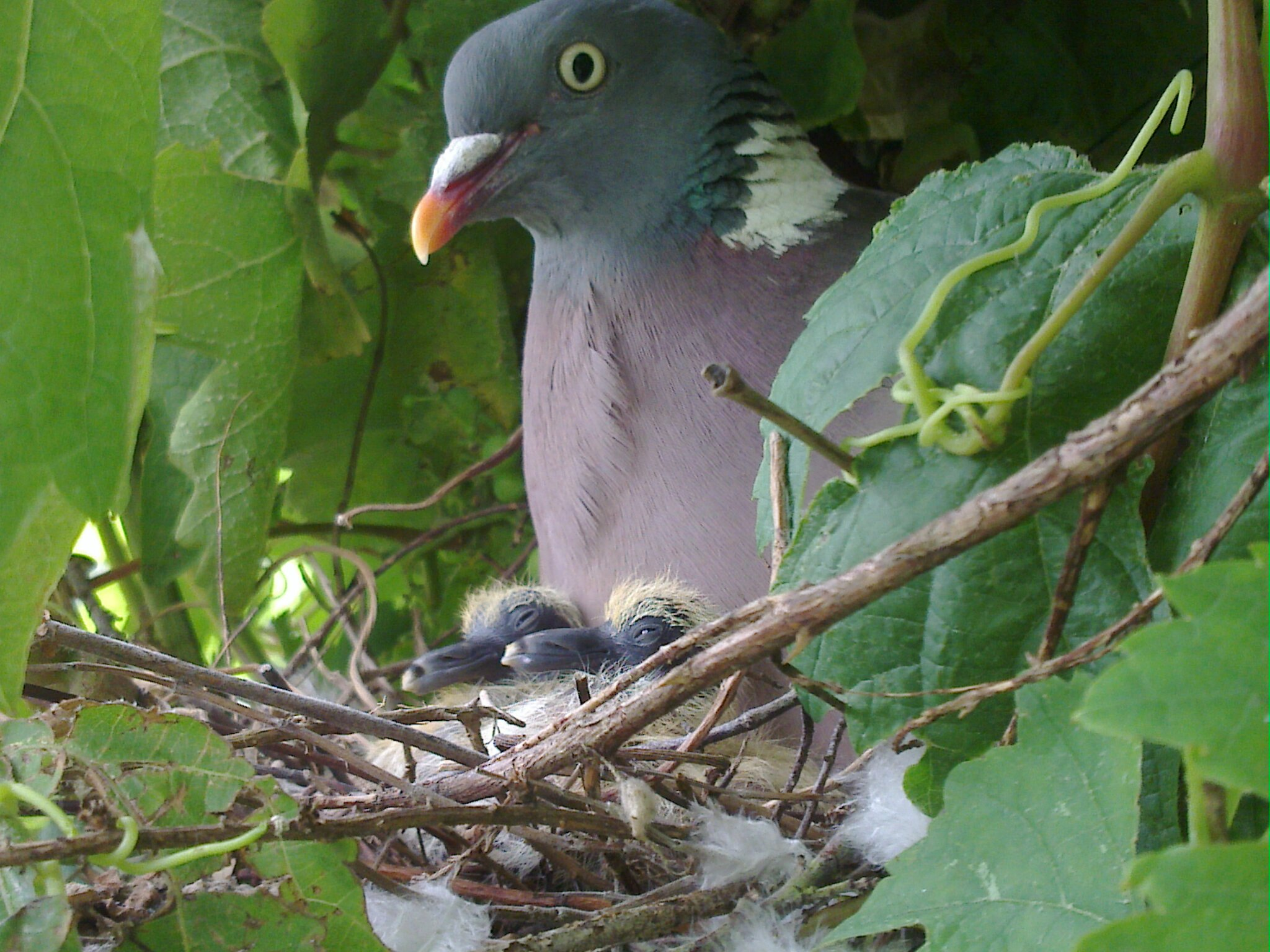 Common Wood Pigeon with newly hatched young